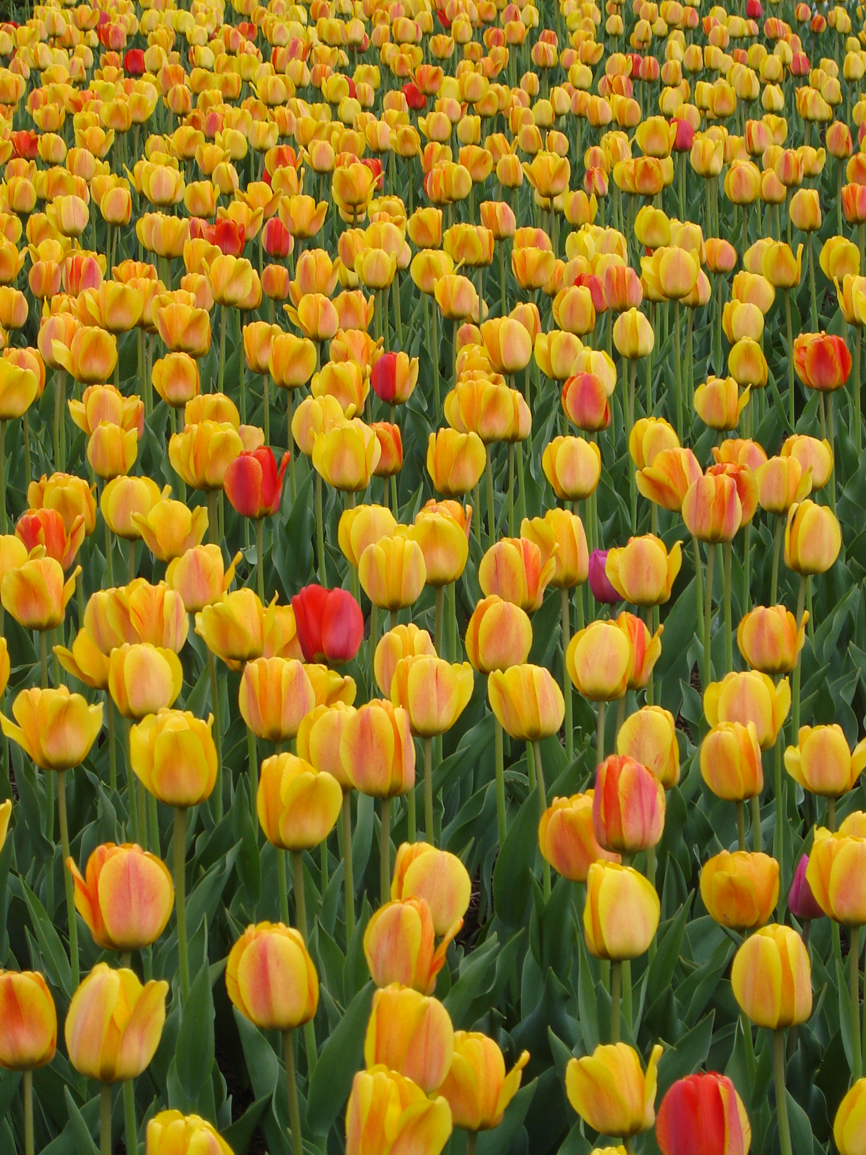 Tulips in the Garden of the Provinces and Territories — in Ottawa, Ontario, Canada. During the 2006 Canadian Tulip Festival.